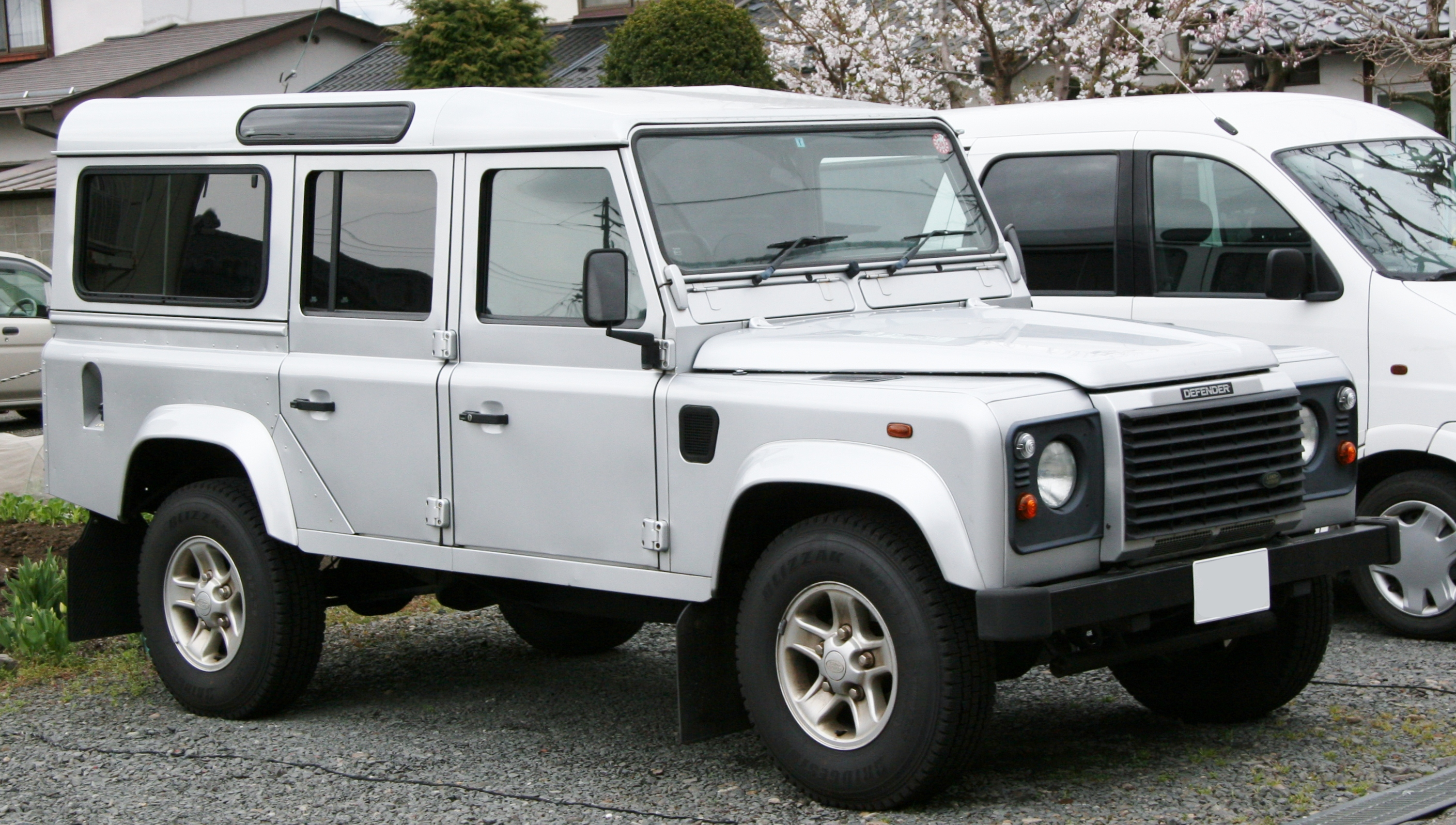 Land Rover Defender